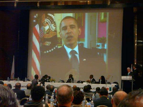 President Barack Obama speaks to ANOCA by video in support of the Chicago bid. (ATR/Panasonic: Lumix)